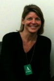 Access2Research Founders Heather Joseph, John Wilbanks, Michael W. Carroll and Mike Rossner after meeting at the White House Office of Science and Technology Policy. Taken as the decision to launch the online petition was made.